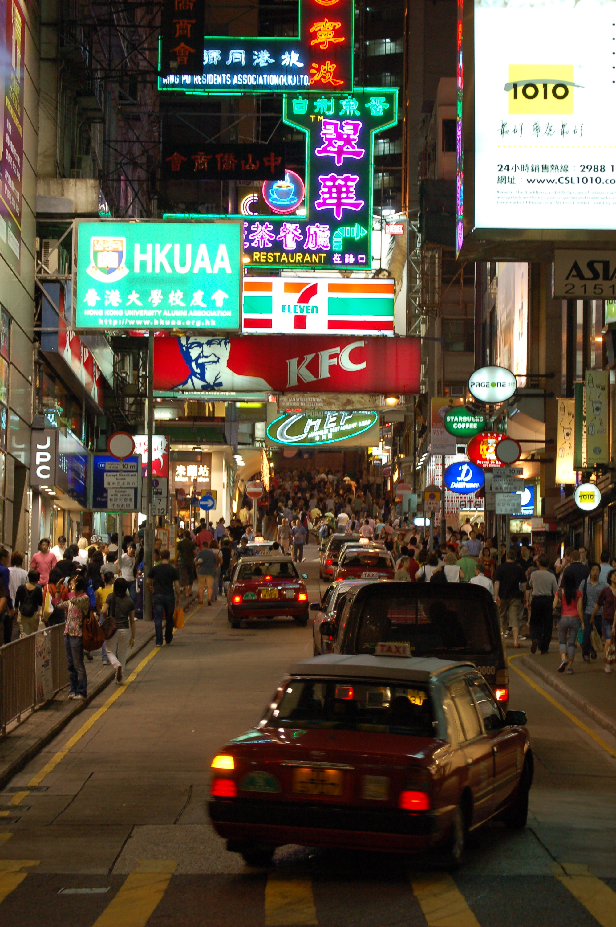 View southward on D'Aguilar Street (德己立街) towards Lan Kwai Fong (蘭桂芳) on a Saturday night